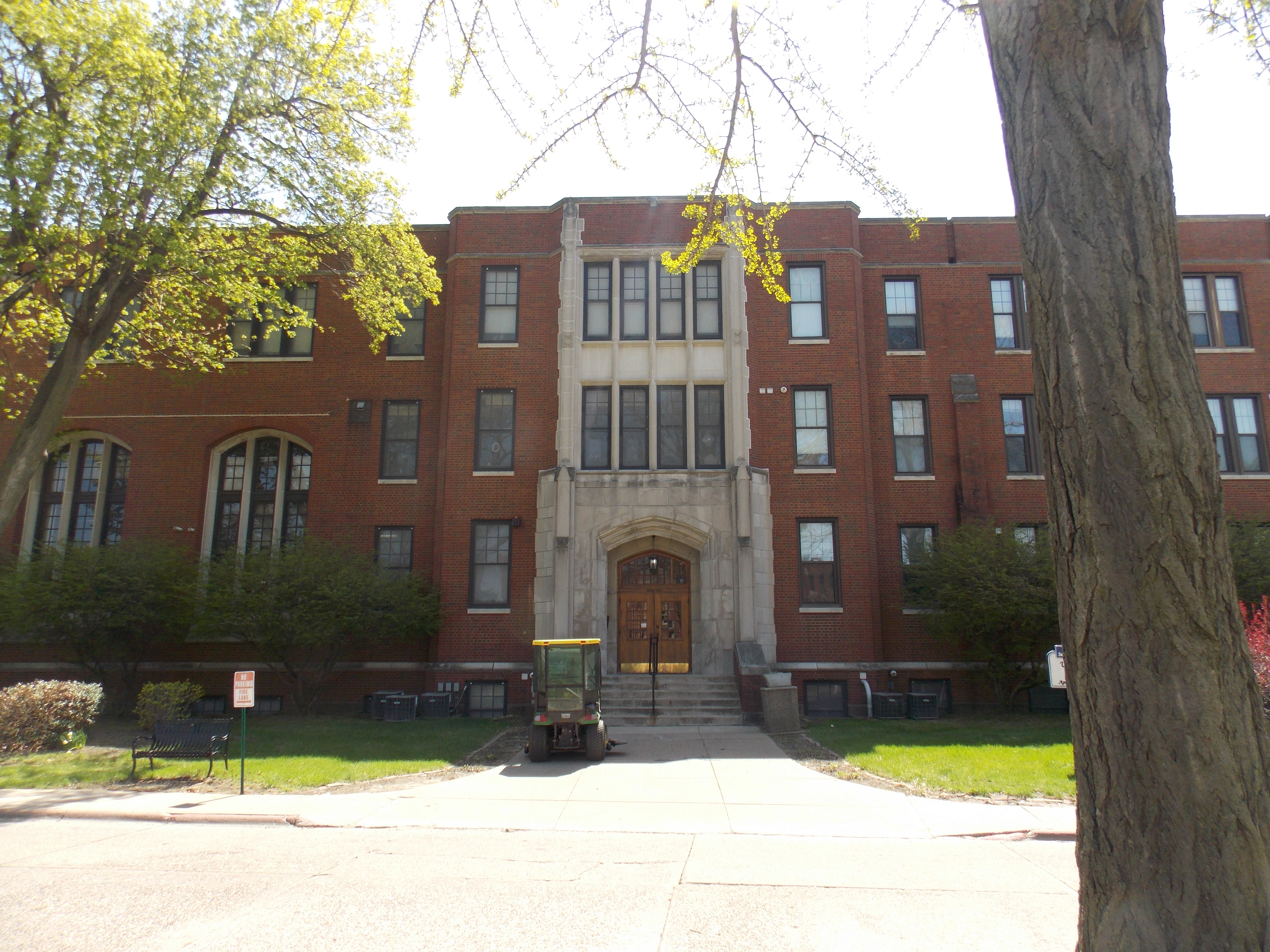 Upham Hall on the campus of the former Marycrest College in Davenport, Iowa. The campus forms an historic district on the National Register of Historic Places, and now houses apartments for senior citizens.